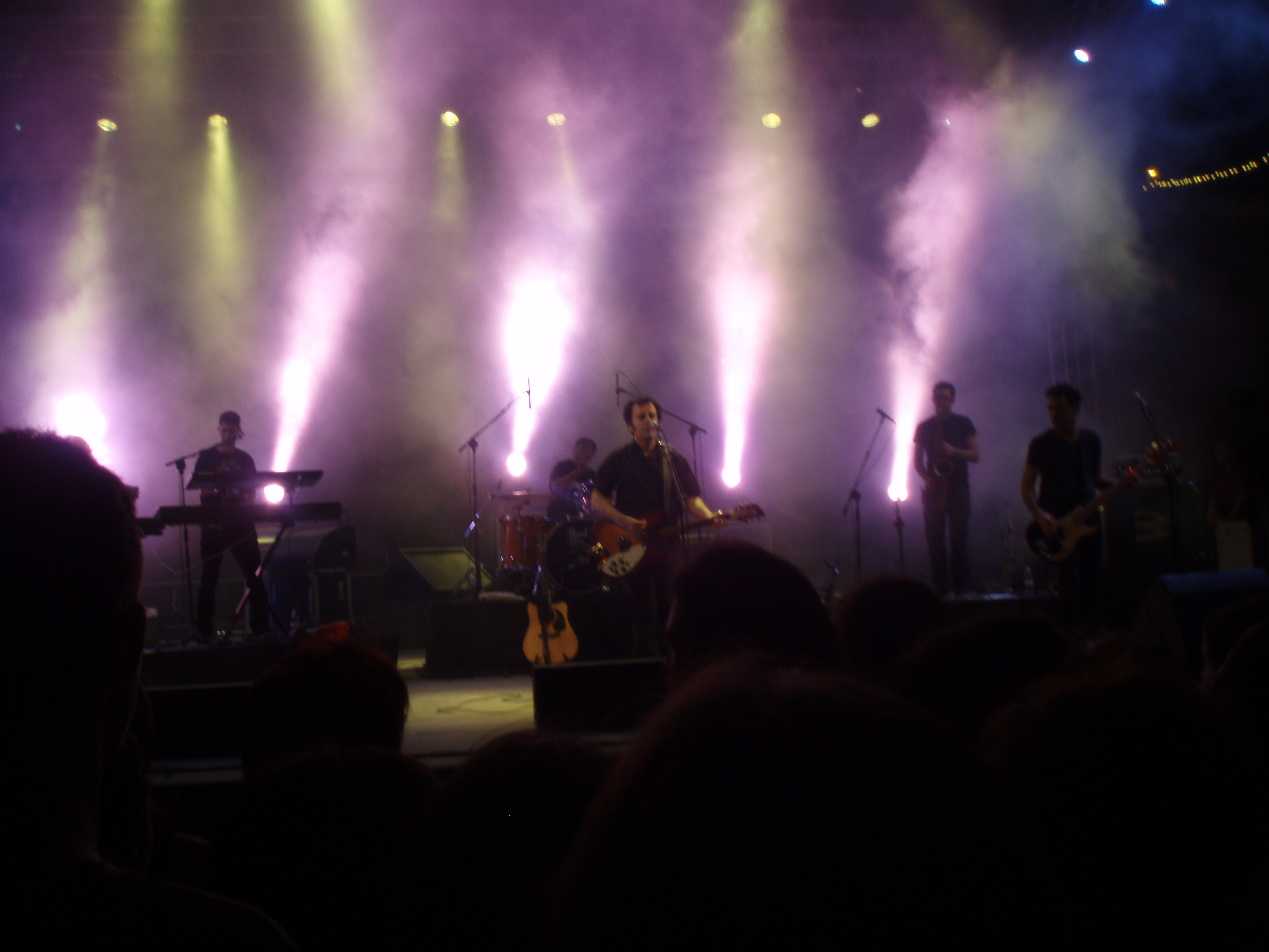 Knesiyat Hasekhel at the concert in Hutzot Hayotzer.